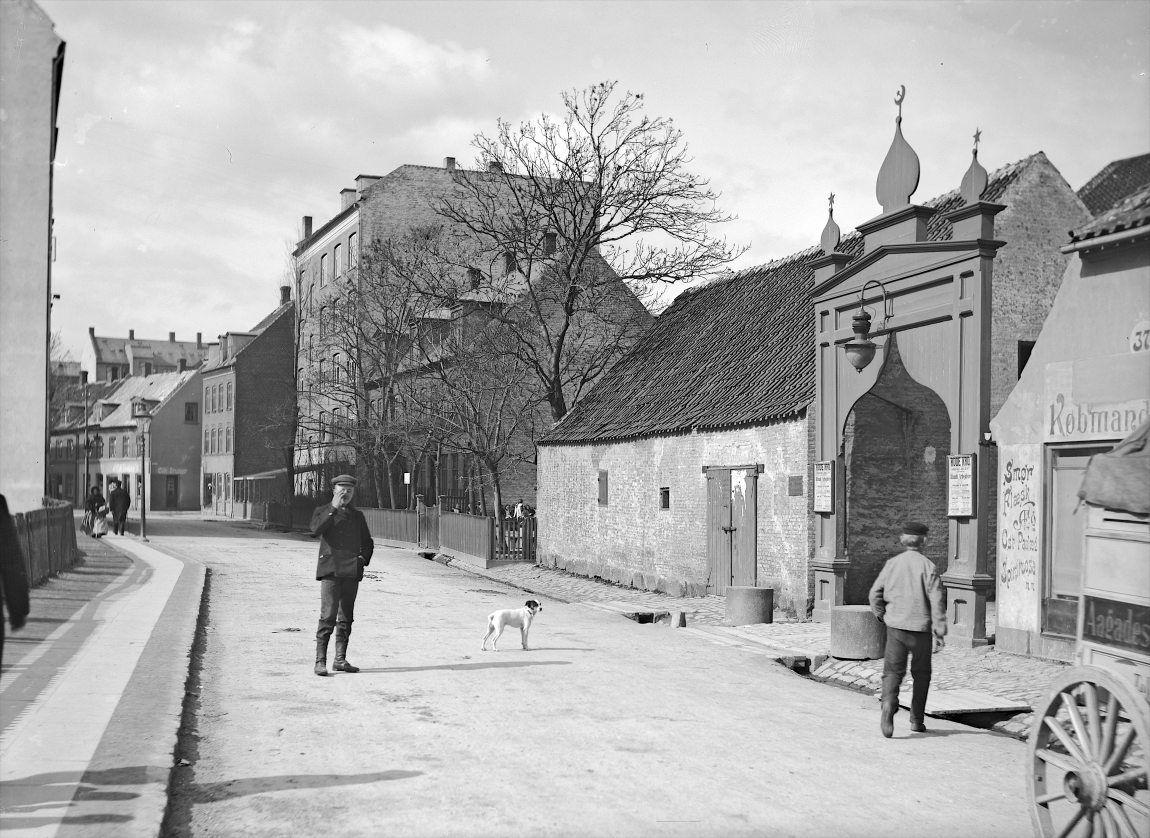 Øresundsvej with the local fire station (Sprøjtehus) in Sundbyerne, Copenhagen, Denmark